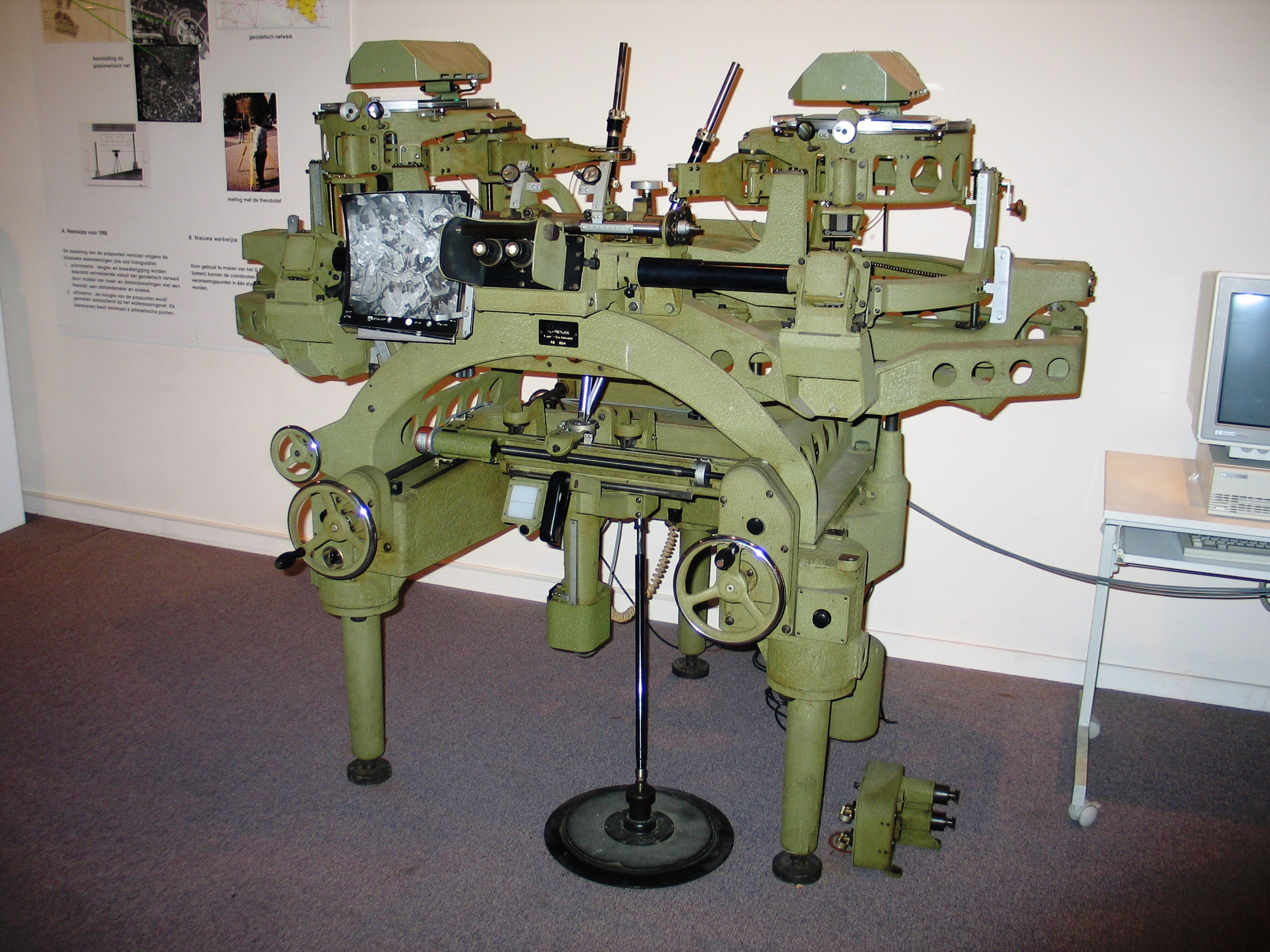 Wild Autograph A8 Restitutietoestel in the Mercatormuseum in Sint-Niklaas Belgium. This device makes it possible to obtain an stereoscopic image of the terrain